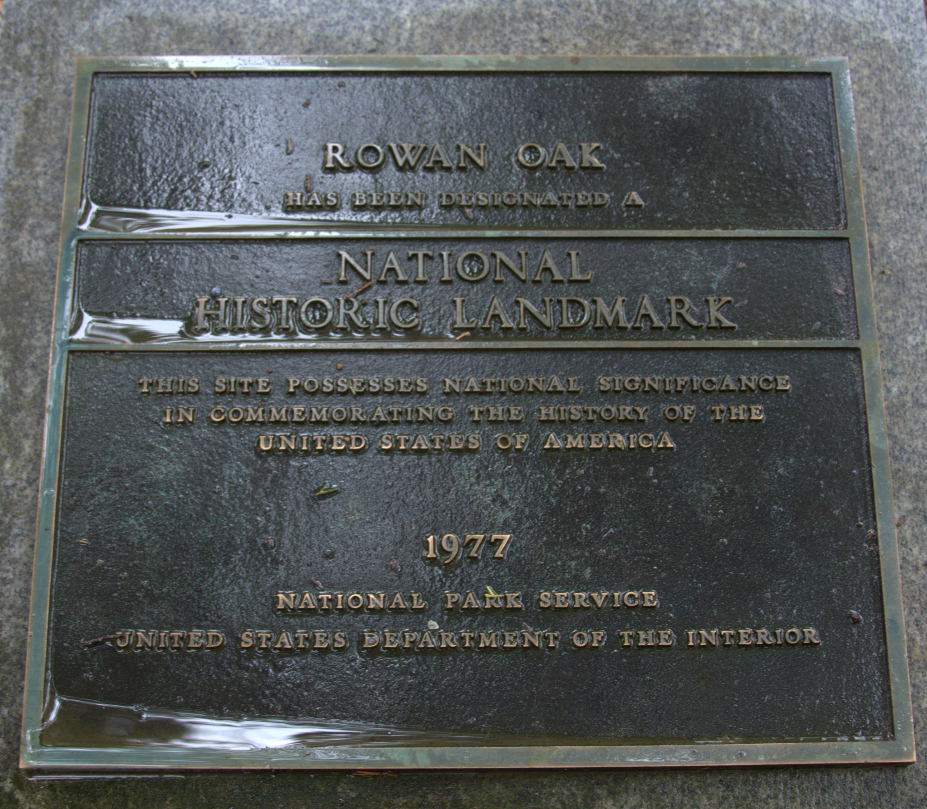 Rowan Oaks landmark